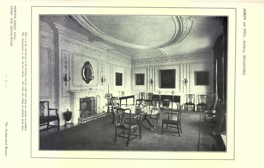 Francis Lupton's home prior to 1847 - Dining Hall - Newton Green Hall Estate, Potter-Newton